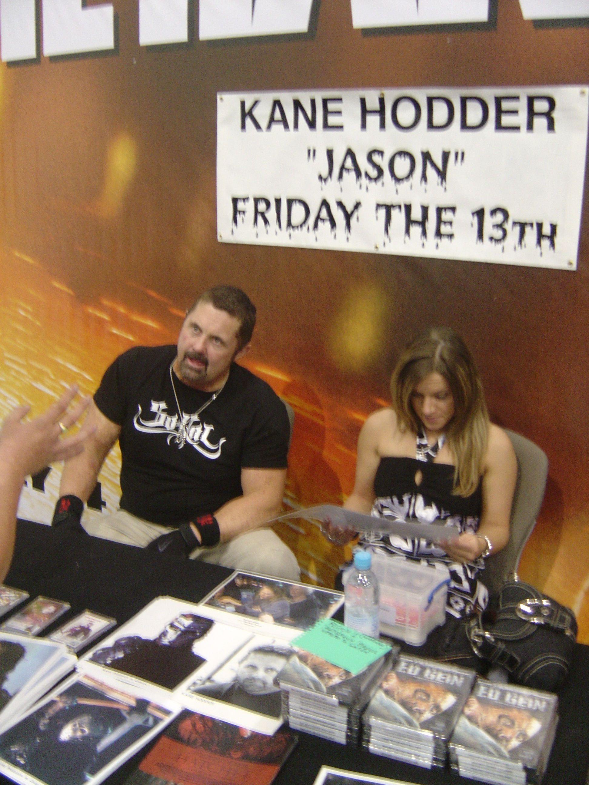 Kane Hodder. Legend. I got pretty damn excited when I saw him.